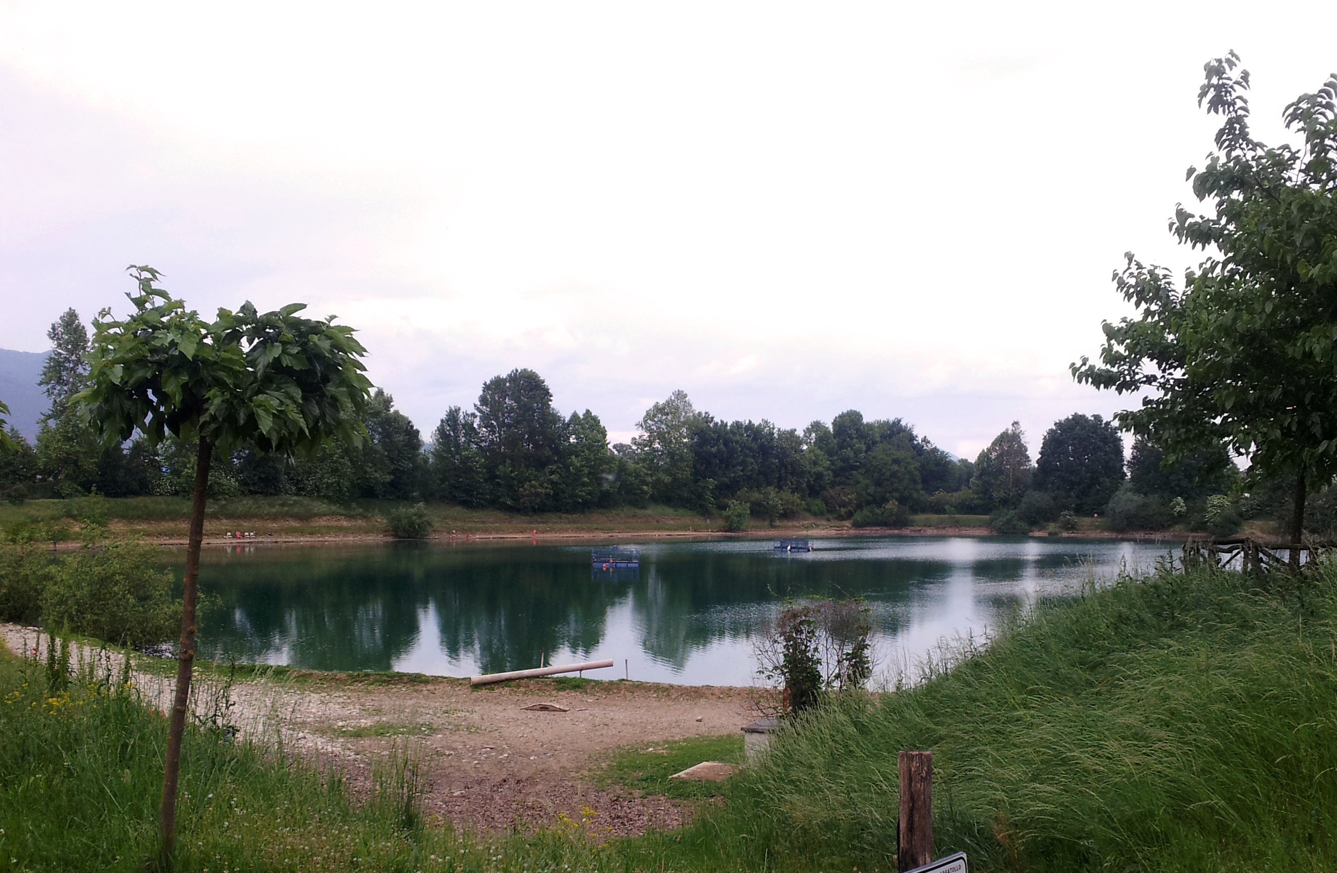 gerole